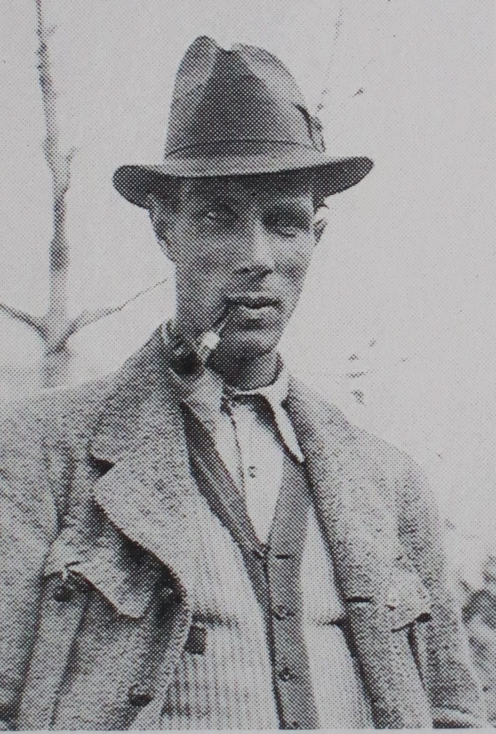 Swiss Mountaineer Marcel Kurz